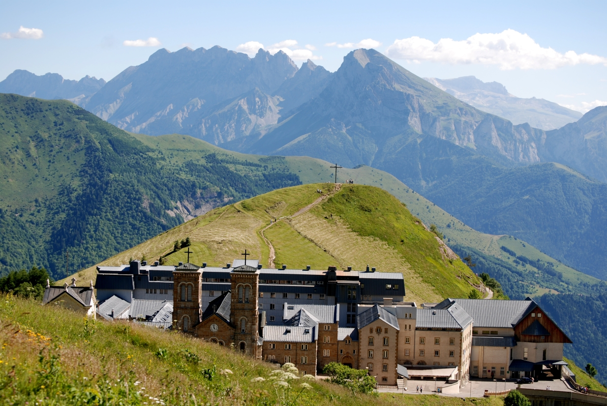 Sanctuary in La Salette, region Rhône-Alpes, France.